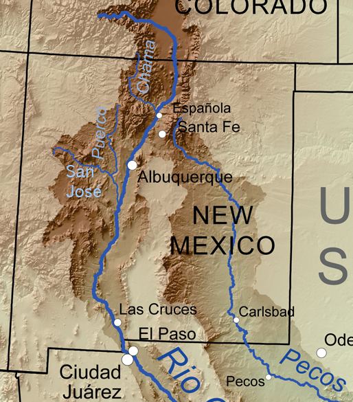 New Mexico crop of File:Riogranderivermap.png with Rio San Jose labeled